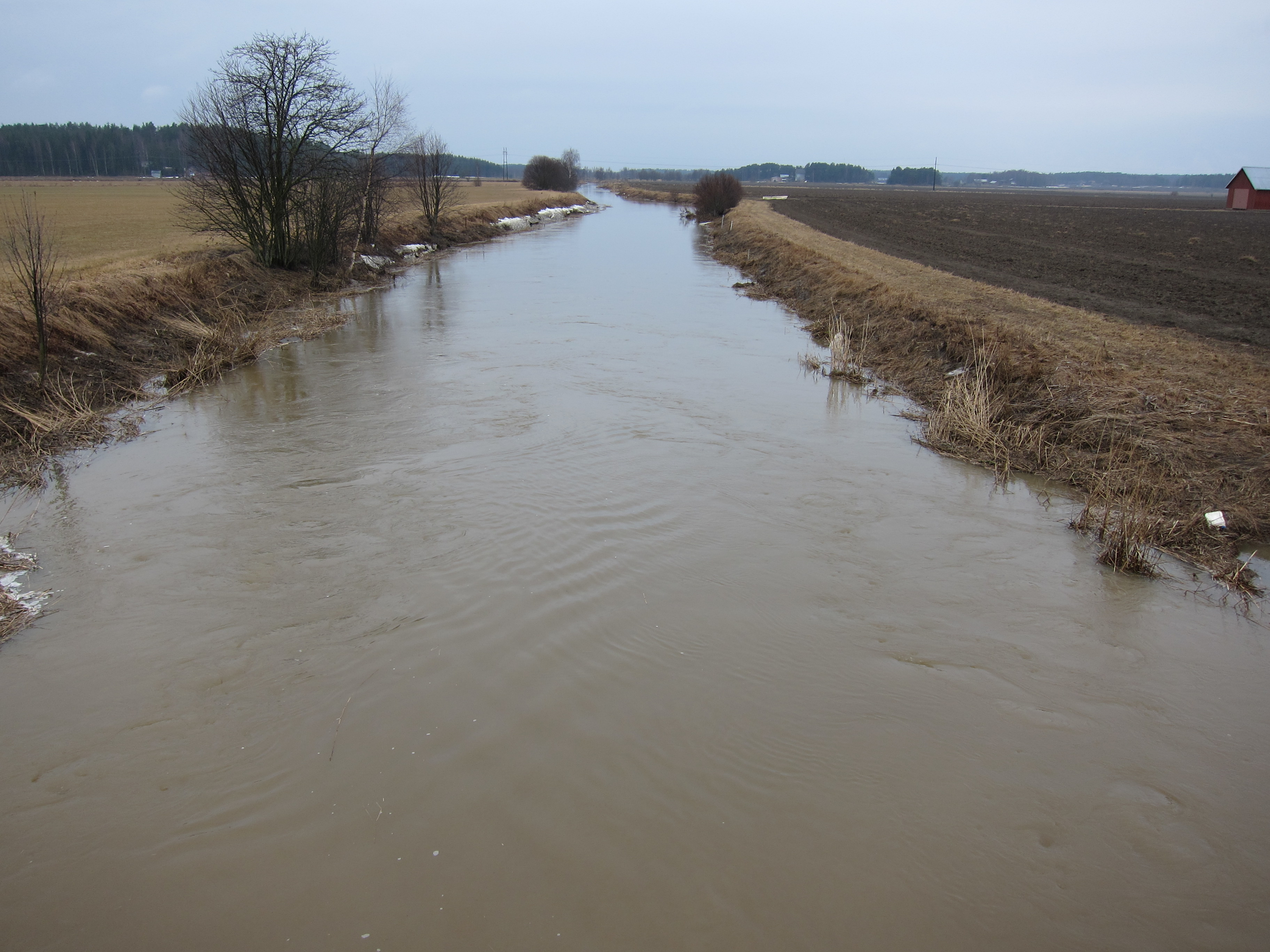 Hirvijoki is a river in Finland Proper. Its origins are in Mynämäki, and it flows through Nousiainen and Masku to the Archipelago Sea.